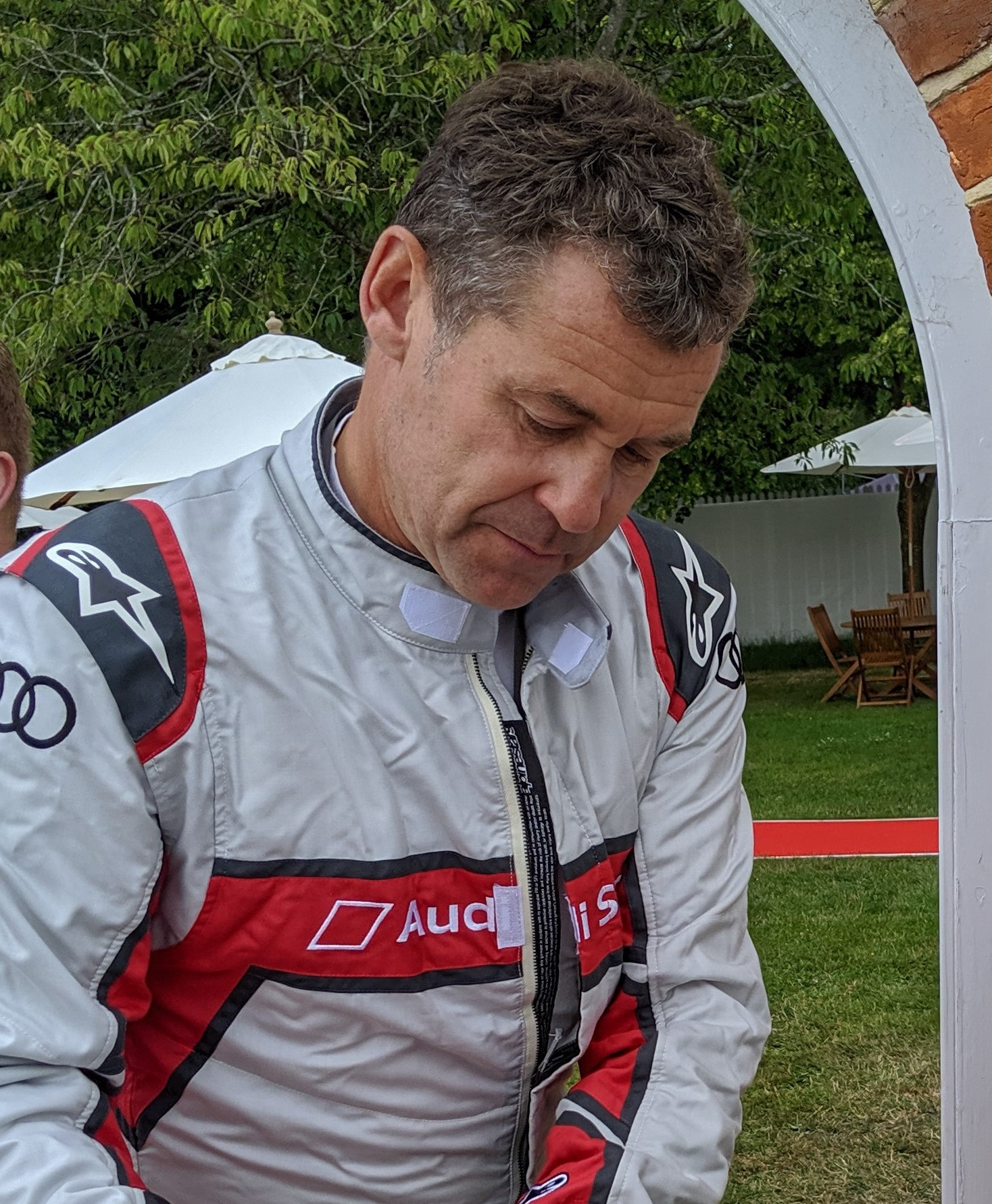 Tom Kristensen Goodwood Festival of Speed 2019.